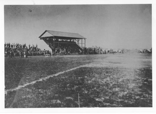 This came from the Cushing Library Historical Images collection ( The picture was first published before 1923. This image depicts Kyle Field at Texas A&M University. Category:Images of Texas A&M